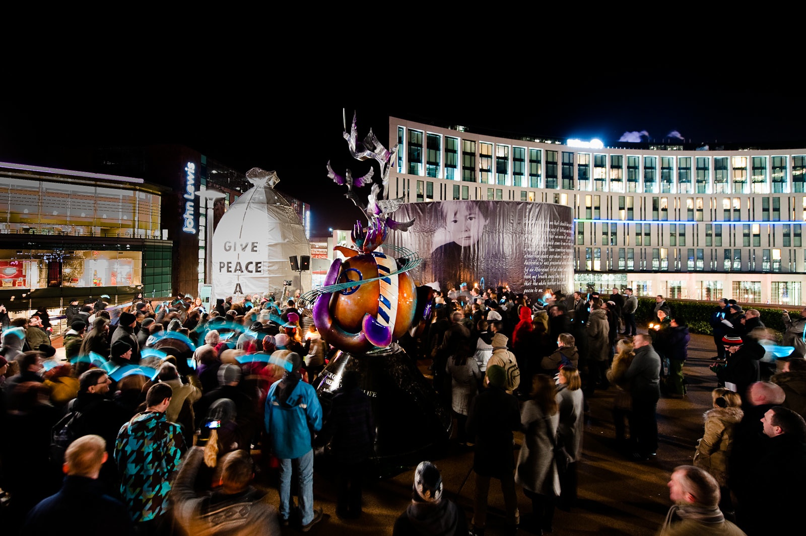 Photograph of the John Lennon Peace Monument Vigil that took place at Chavasse Park, Liverpool, England on December 8th 2010, to mark the 30th anniversary of John Lennon's death.